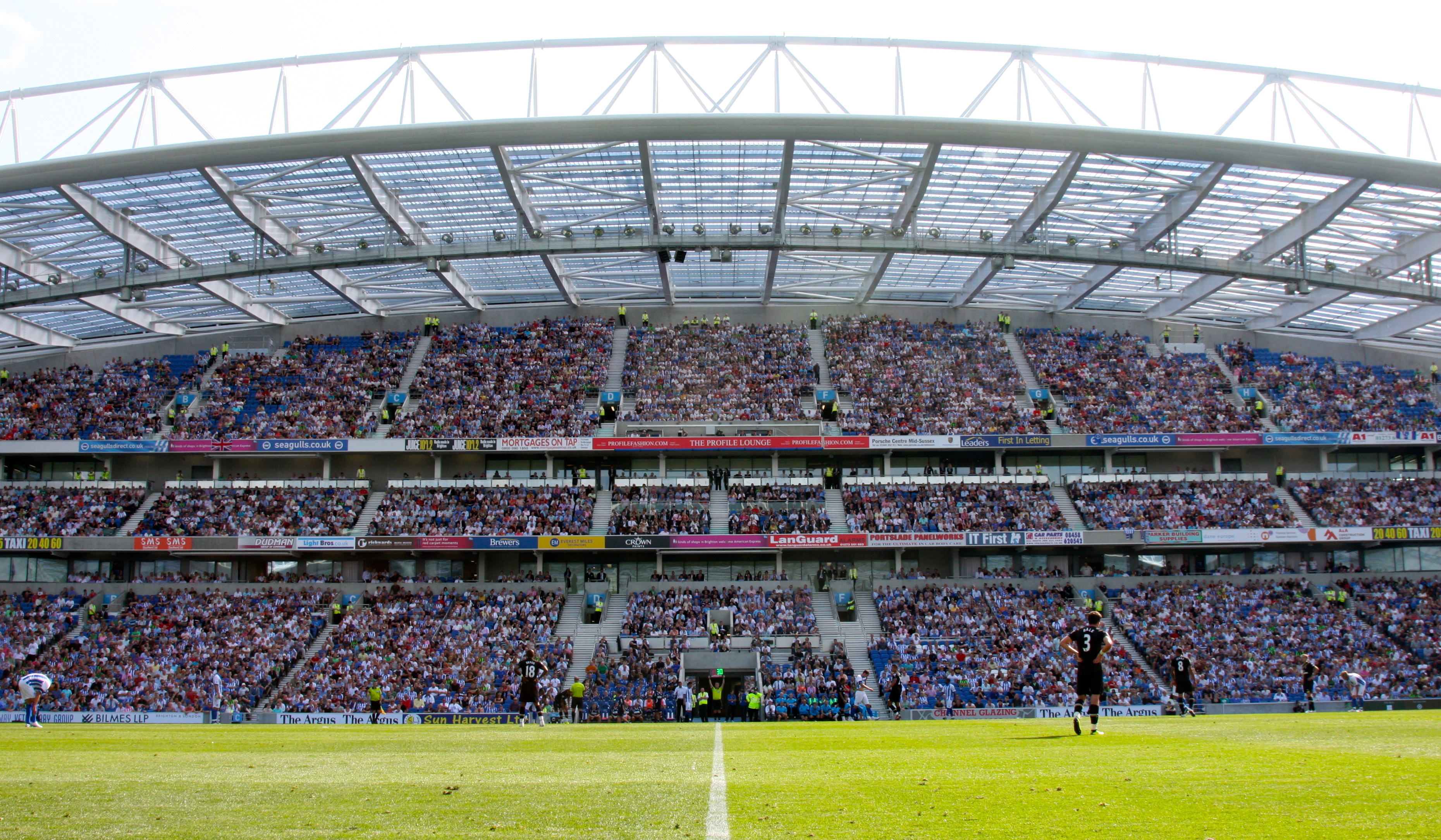 Brighton v Spurs Amex Opening 30/7/11